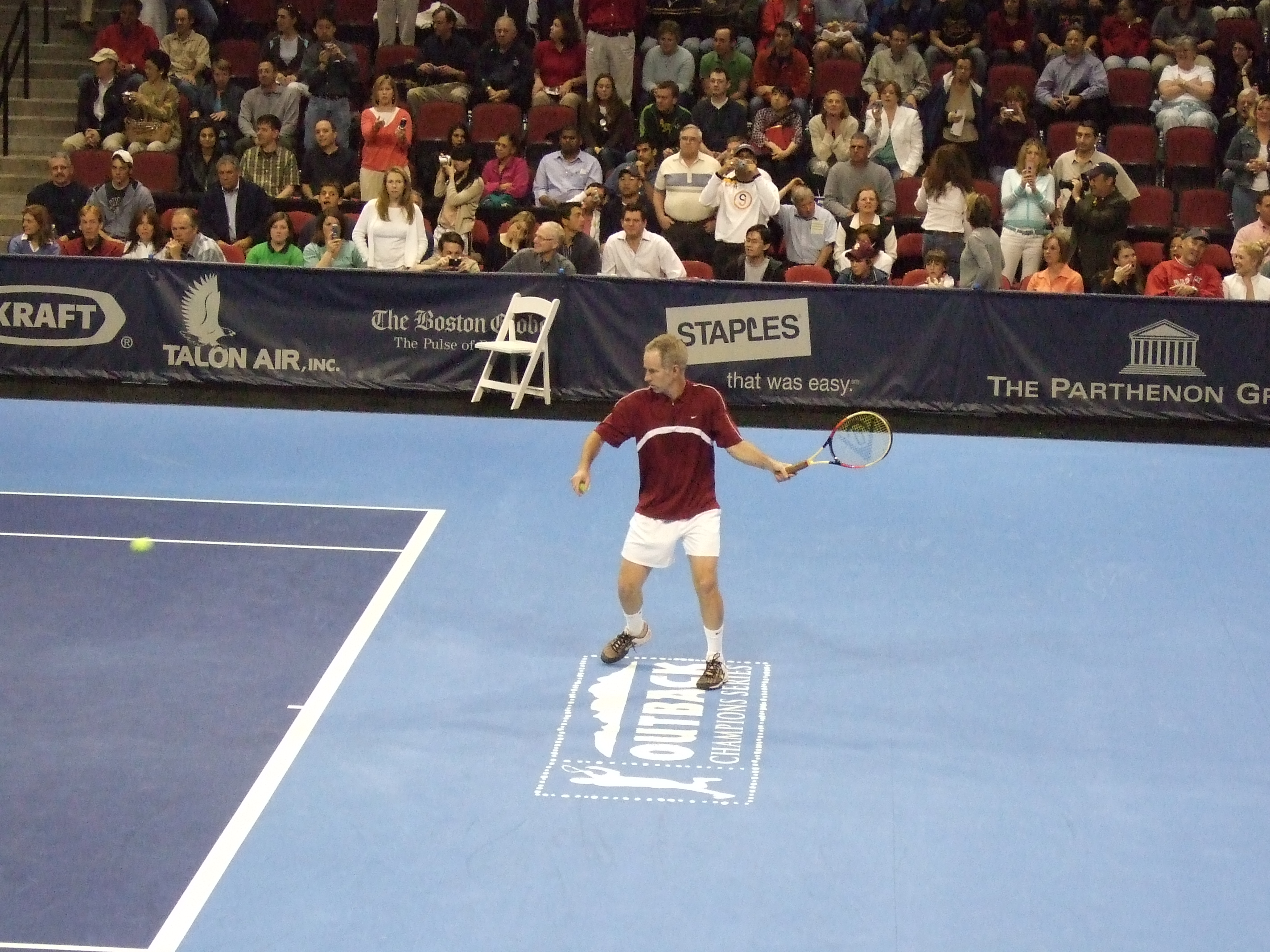 John McEnroe hits forehand. Champions Cup Boston